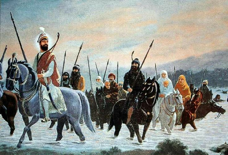 Early 20th century Sikh painting..Guru Gobind Singh and attendants crossing the Sarsa river, being chased by the Mughal forces